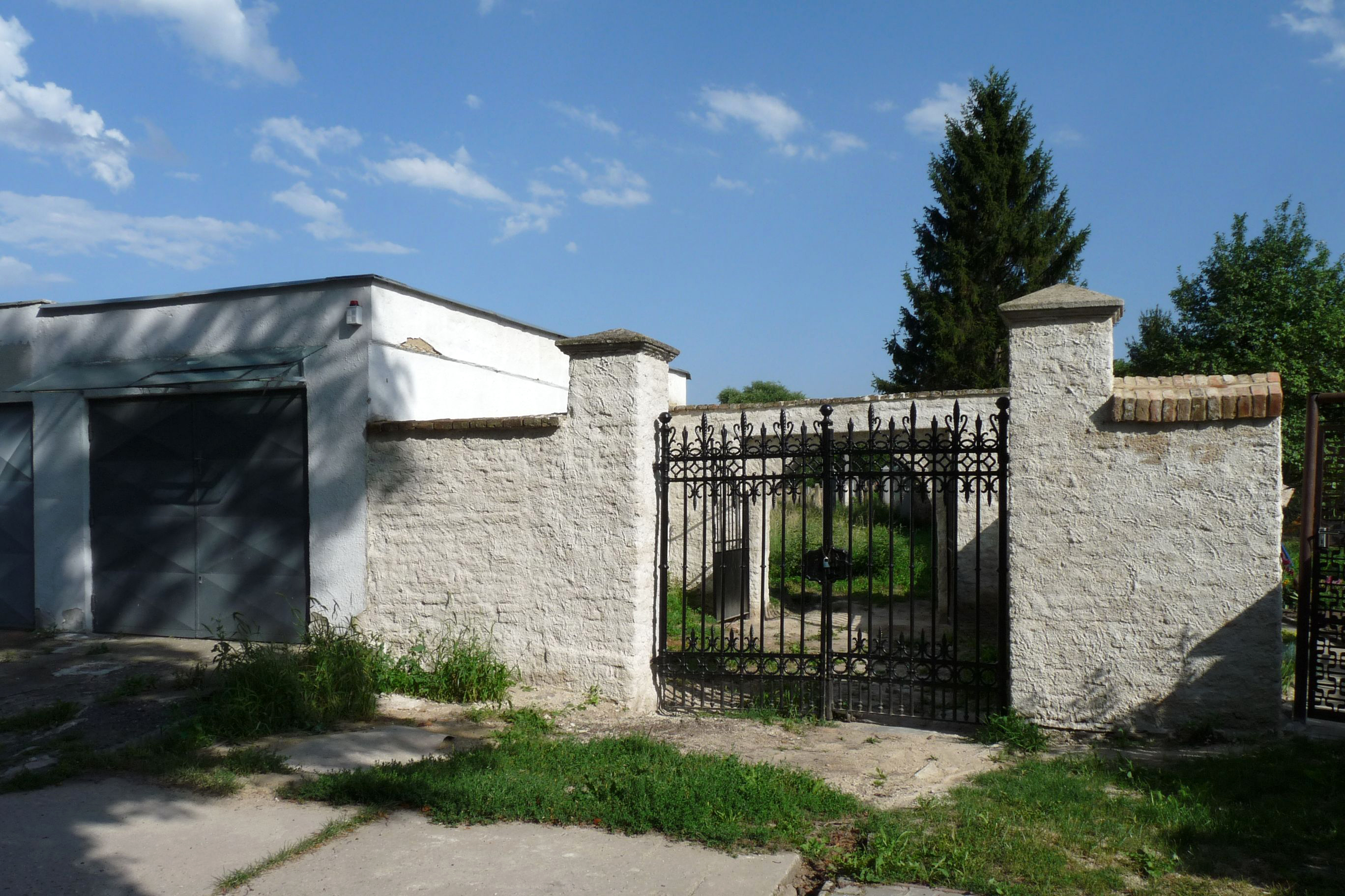 Jewish cemetery in the town of Rousínov, Vyškov District, Czech Republic.